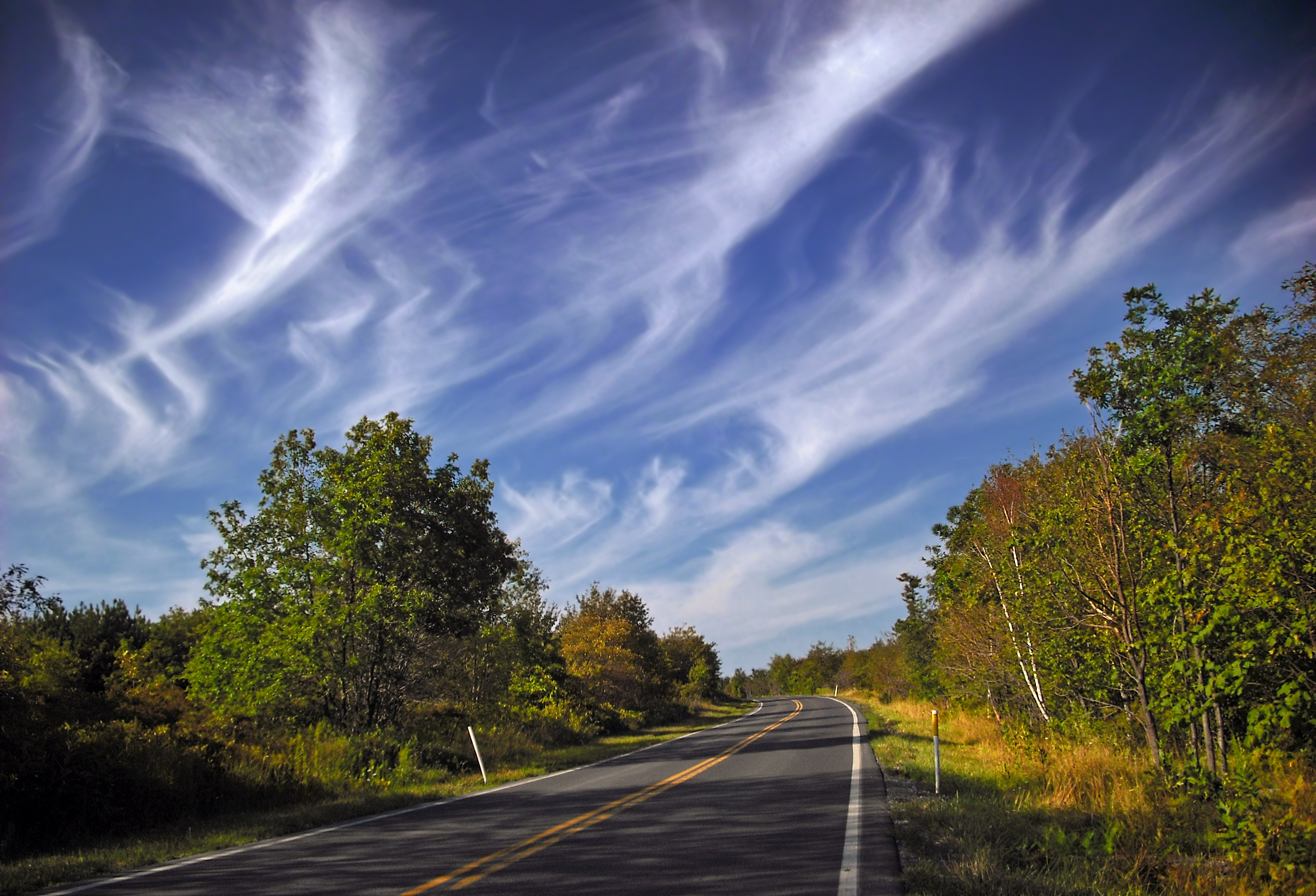 Cirrus clouds, Route 144, Noyes Township, Clinton County.